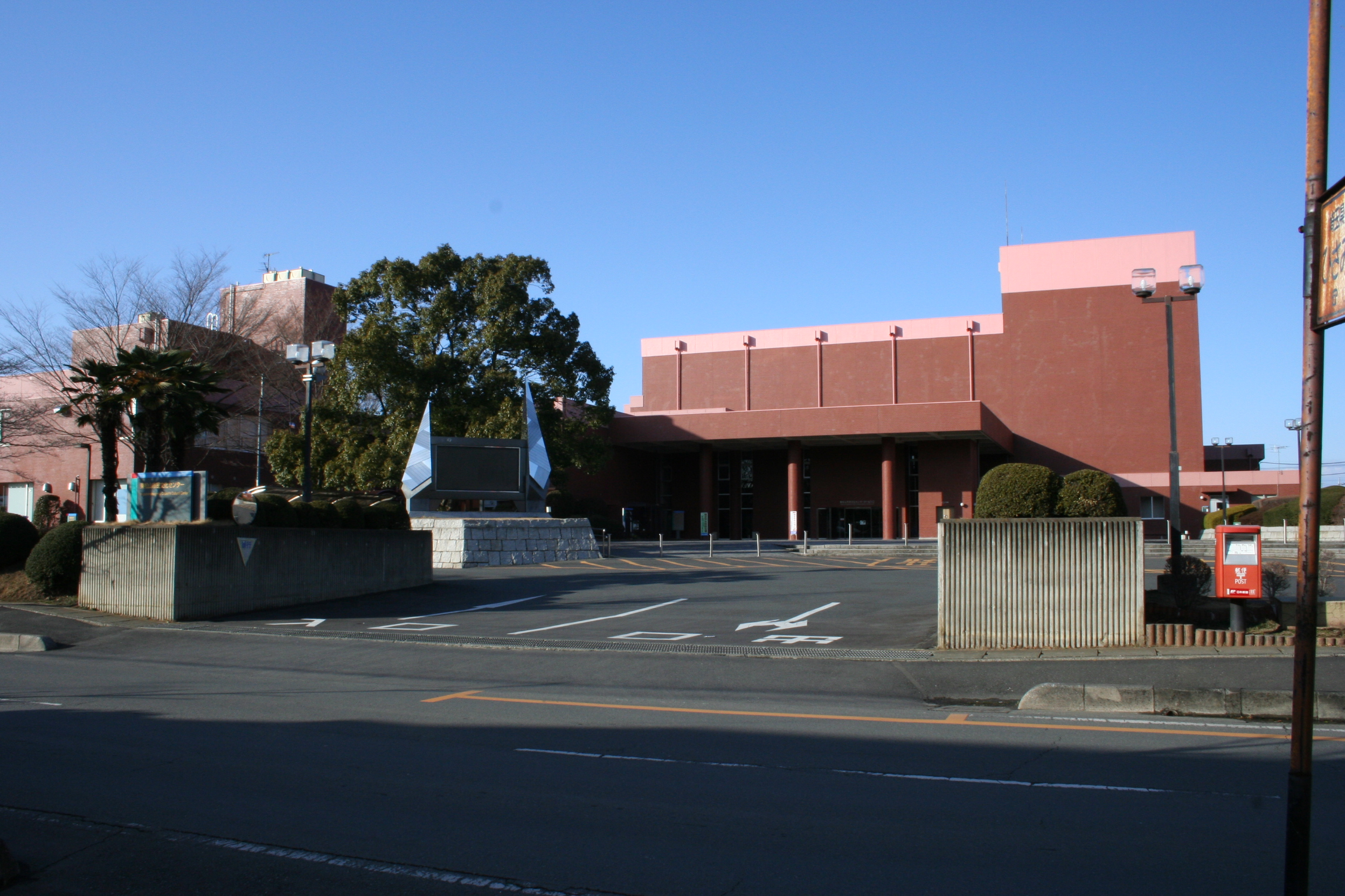 Higashimatsuyama Municipal Culture Center, Higashimatsuyama-shi, Saitama, Japan